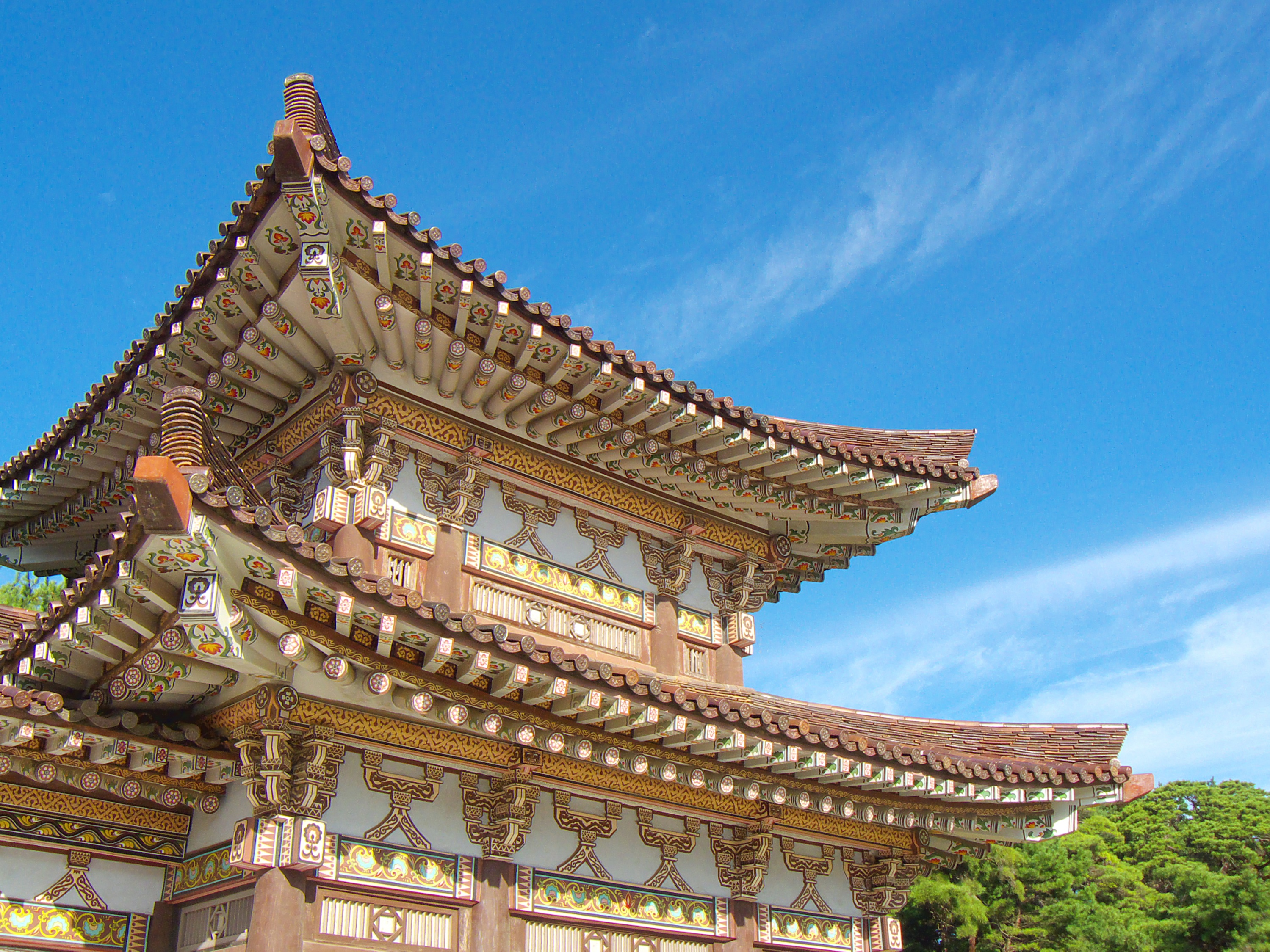 Dancheong (traditional painted eaves) at the UNESCO World Heritage listed Tomb of King Tongmyong (259-298 BCE). It is located some 20km south of central Pyongyang, in a remote, serene locale. King Tongmyong is the founder of the Koguryo Kingdom, one of the famed Three Kingdoms of Korea (the other two being Silla and Baekje).